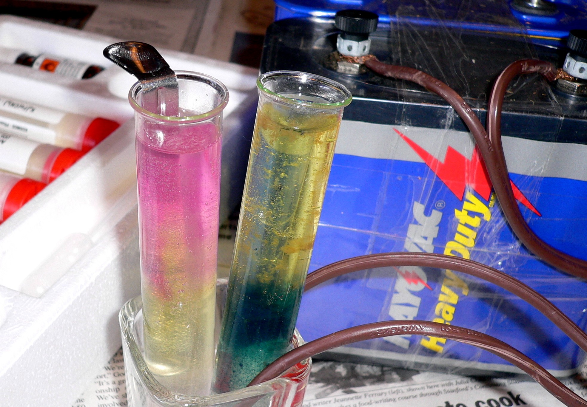 Generating hydrogen and pretty colors from salt water. Bottom left yellow: Chloride, Top left pink: Sodium hydroxide + phenolphthalein, Top right yellow: Chloride, Bottom right prussian blue: potassium ferrocyanide with iron from the steel electrode